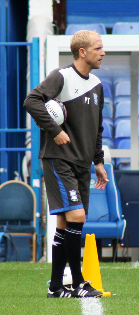 At Birmingham City open training session at St.Andrews' Stadium.